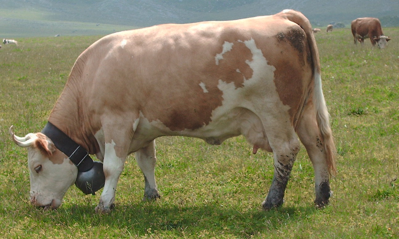 Simmental cattle on alp pasture (Engstligenalp, Switzerland) Photo taken by Irmgard on July 20, 2006